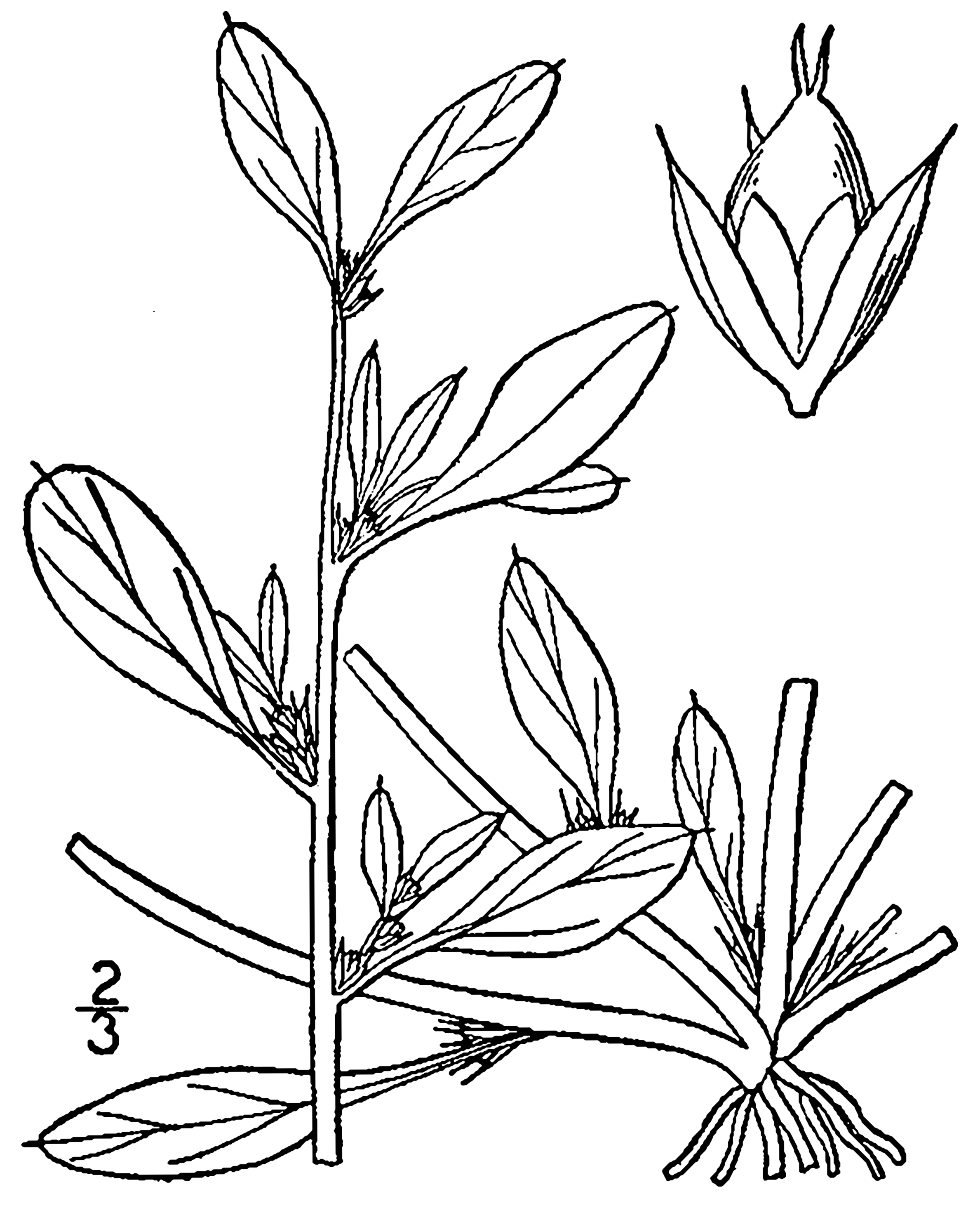 Amaranthus blitoides S.Watson - mat amaranth